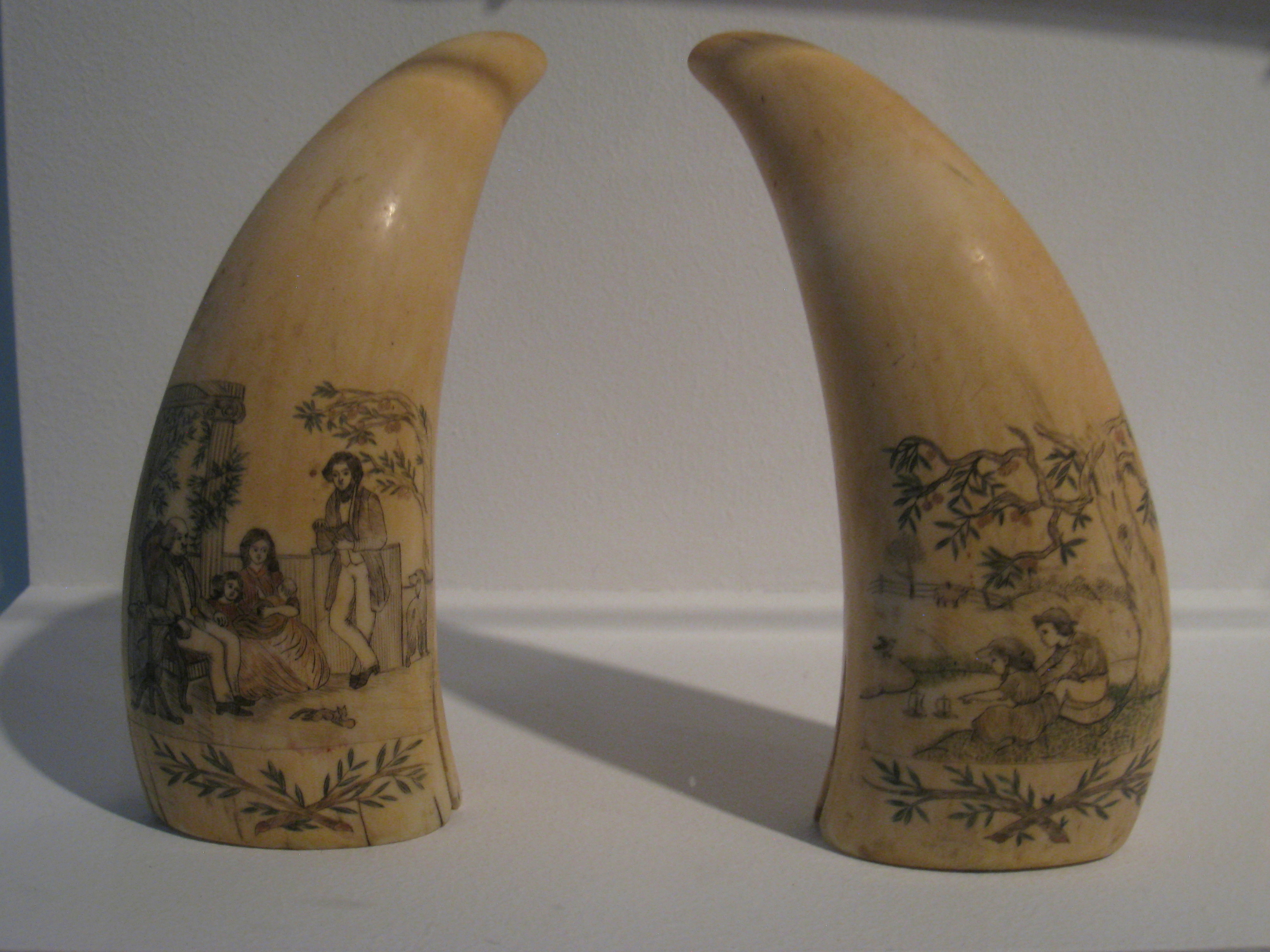 Scrimshaw on sperm whale teeth, Nantucket, circa 1840-1860. Exhibited in the American Folk Art Museum, New York City, New York, USA. There were no restrictions on photography in the museum, and this item is old enough so that copyright (if any) has expired.